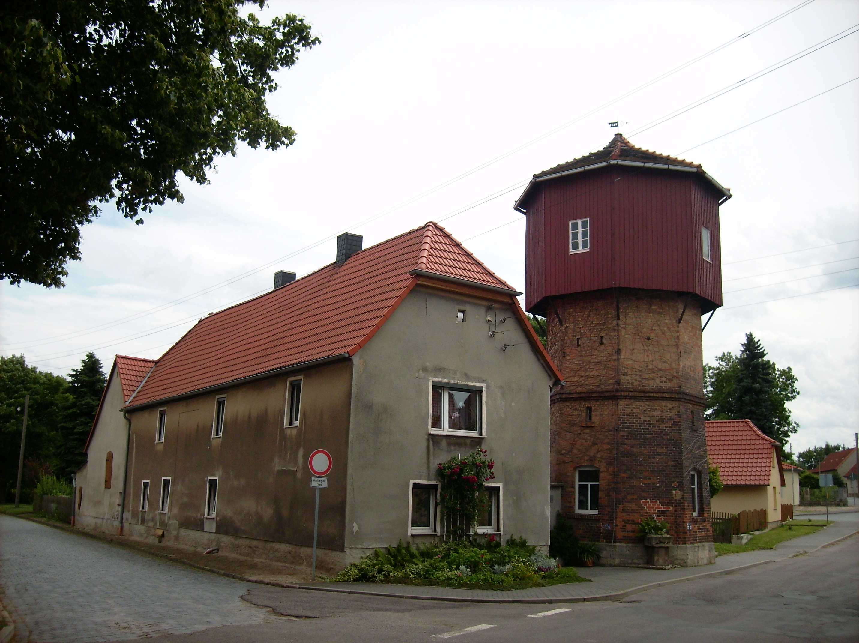 Water-tower, Schnellroda (Steigra, district of Saalekreis, Saxony-Anhalt)